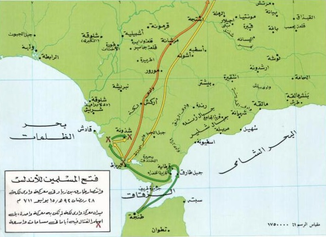 The first Muslim crossing into Al-Andalus.